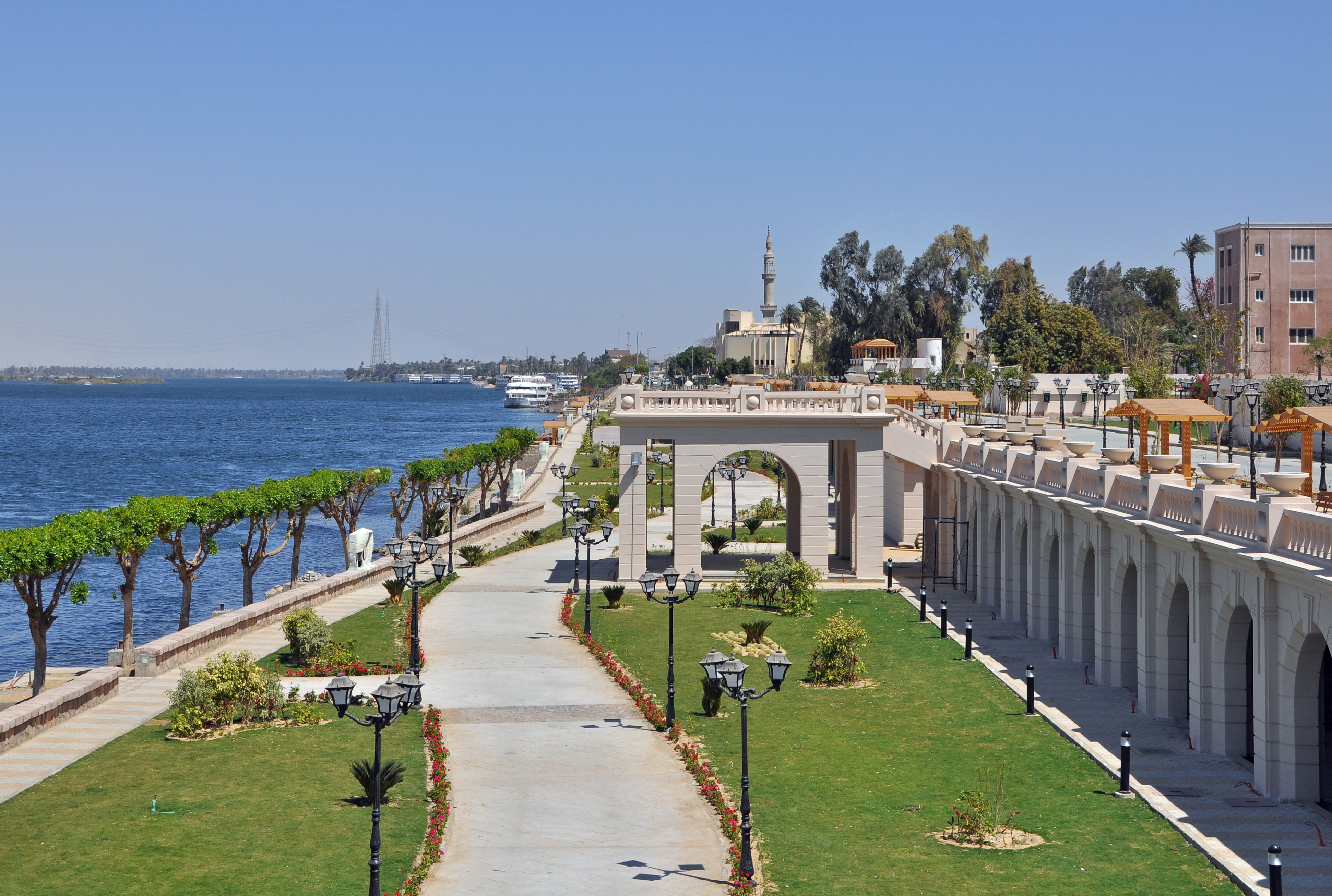 Luxor (Egypt): the New Corniche near the Museum